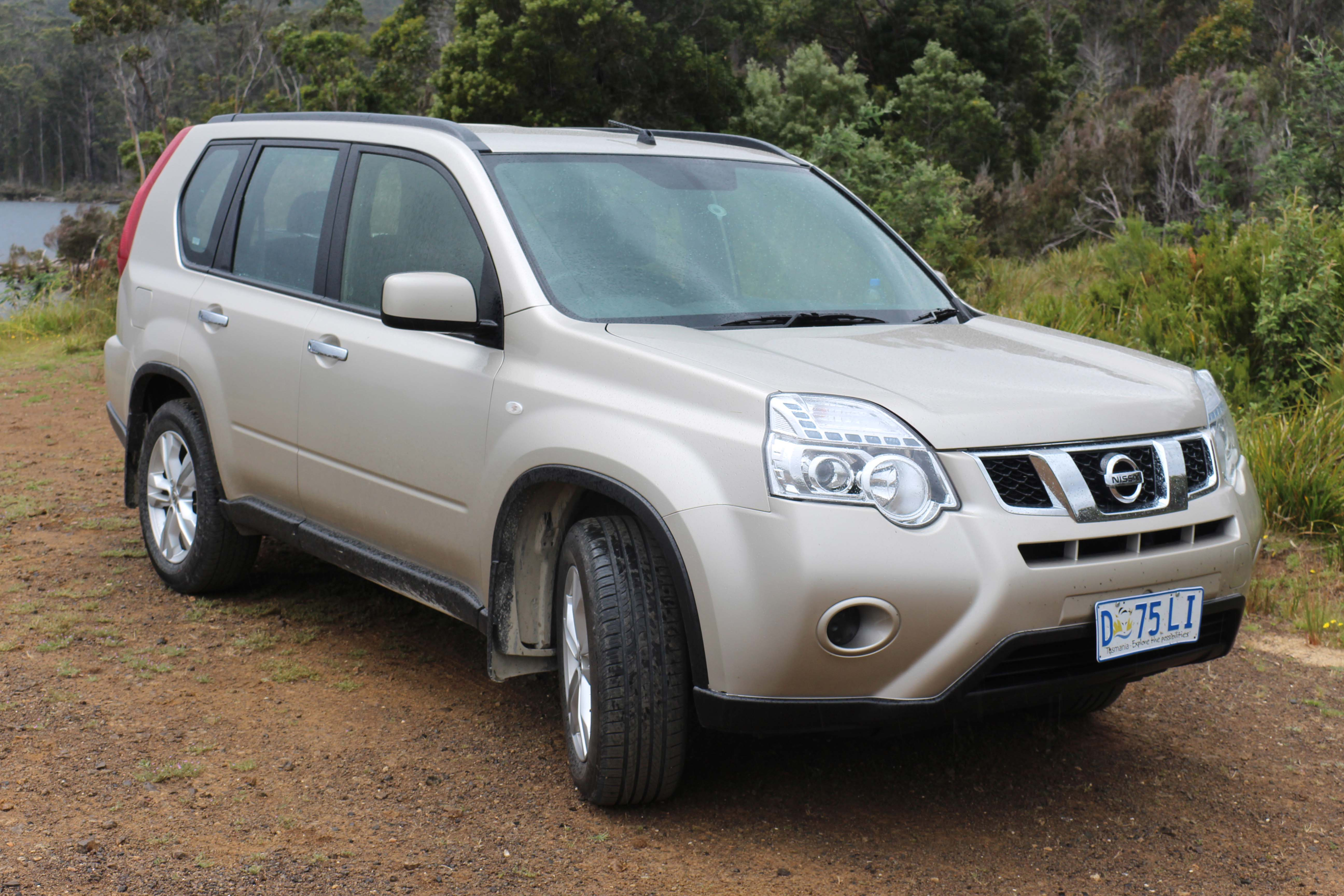 2013 Nissan X-Trail (T31) ST wagon. Photographed in Tarraleah, Tasmania, Australia. Vehicle registration enquiry results Jurisdiction Tasmania Registration D75LI Engine code 664714B Year of manufacture 2013